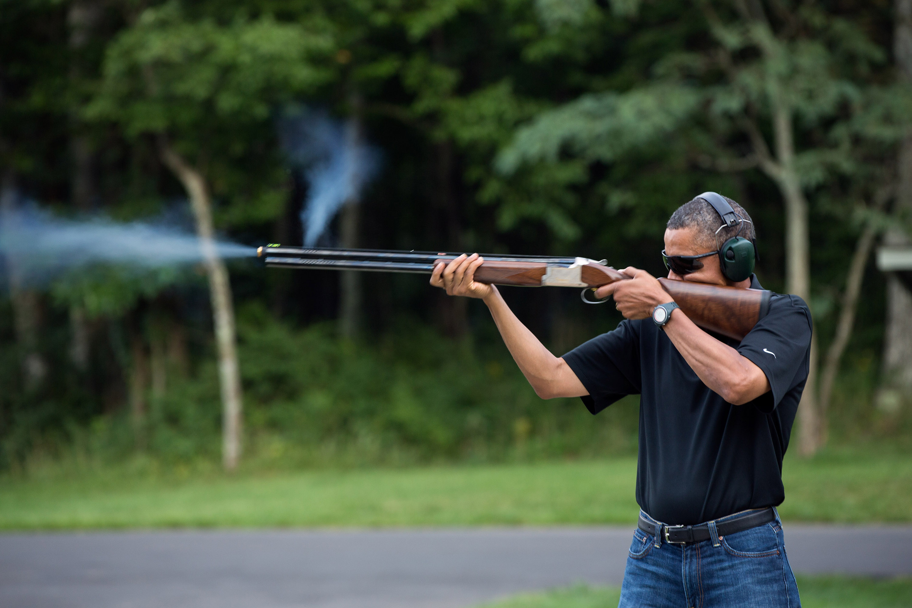 United States President Barack Obama shoots clay targets on the range at Camp David, Maryland on Saturday, 4 August 2012. The side jet of smoke is from holes in the ported gun barrels.Following the Sandy Hook Elementary School shooting on 14 December 2012, Obama argued for tighter gun controls in the United States. In an interview in the New Republic on 27 January 2013, Obama was asked "Have you ever fired a gun?" and he replied, "Yes, in fact, up at Camp David, we do skeet shooting all the time."Following the interview, the White House released this picture on Flickr on 1 February 2013 at 6.25 PM PST, and the following day the White House Press Secretary released it on his Twitter account.